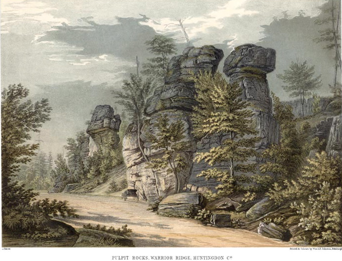 Pulpit Rocks in Huntingdon County, Pennsylvania, near US route 22. As published in "The Geology of Pennsylvania, a Government Survey" in 1858